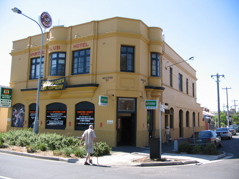 Sporting Club Hotel, Brunswick, Victoria, Australia